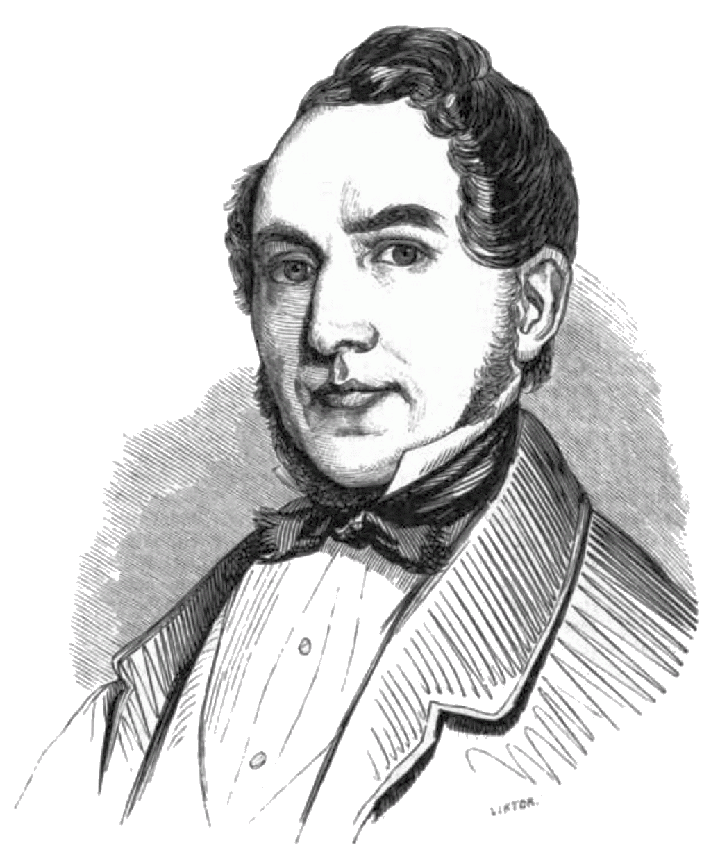 Karl Mathias Rott (1807-1876), Austrian actor